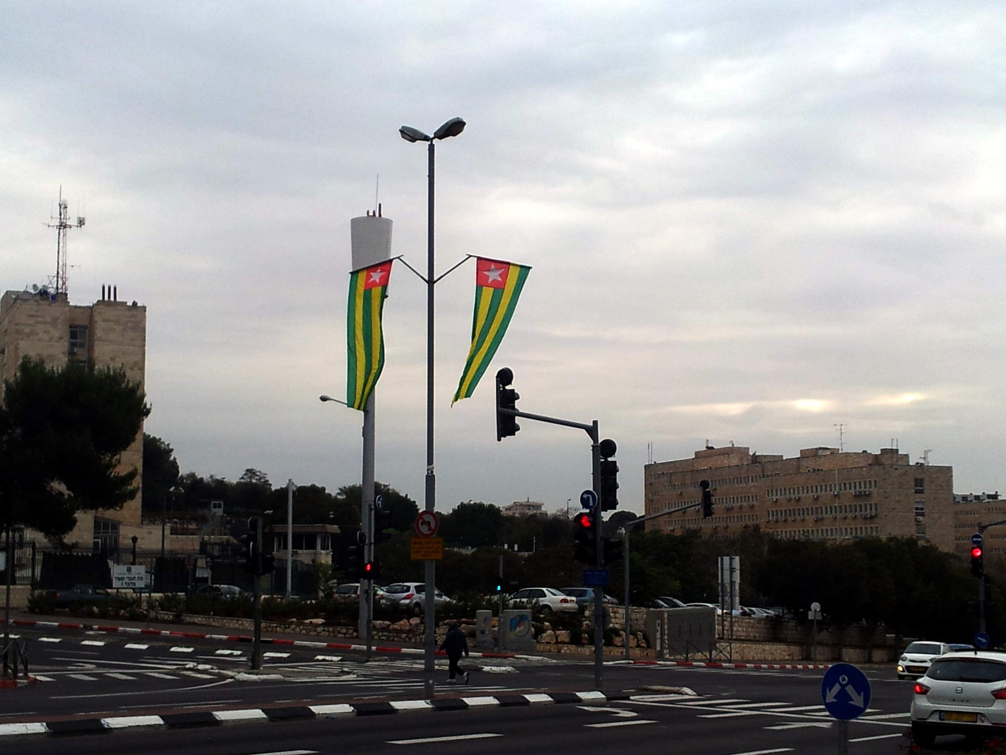 Flag of Togo in Jerusalem Government buildings